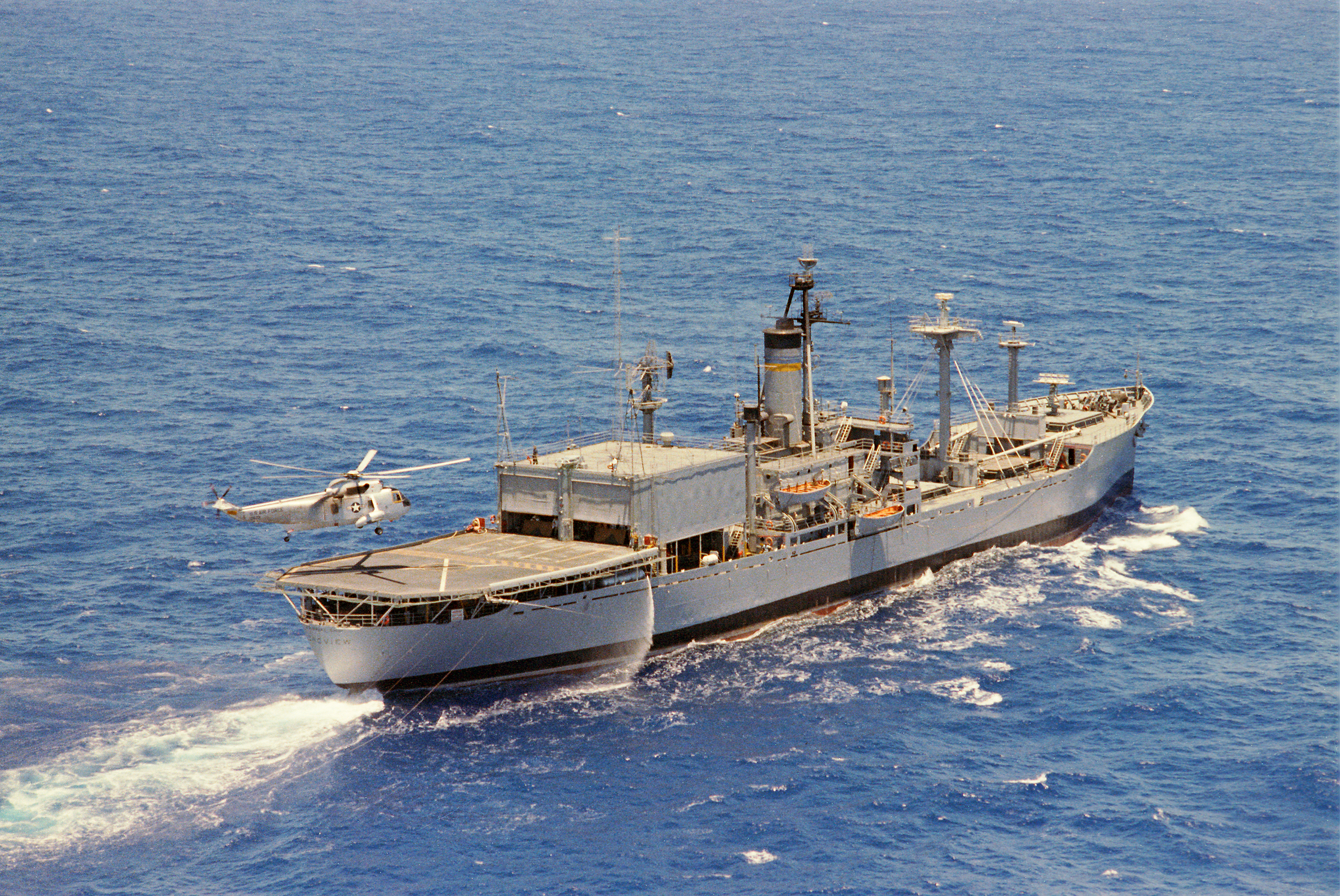 USAF 6594th Recovery Control Group helo landing on the USNS Longview in the Hawaiian area.